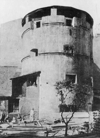 The round tower in the Herrenstraße in Munich, called princess tower